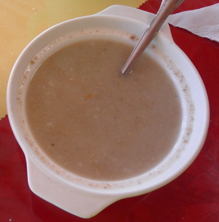 Bantan